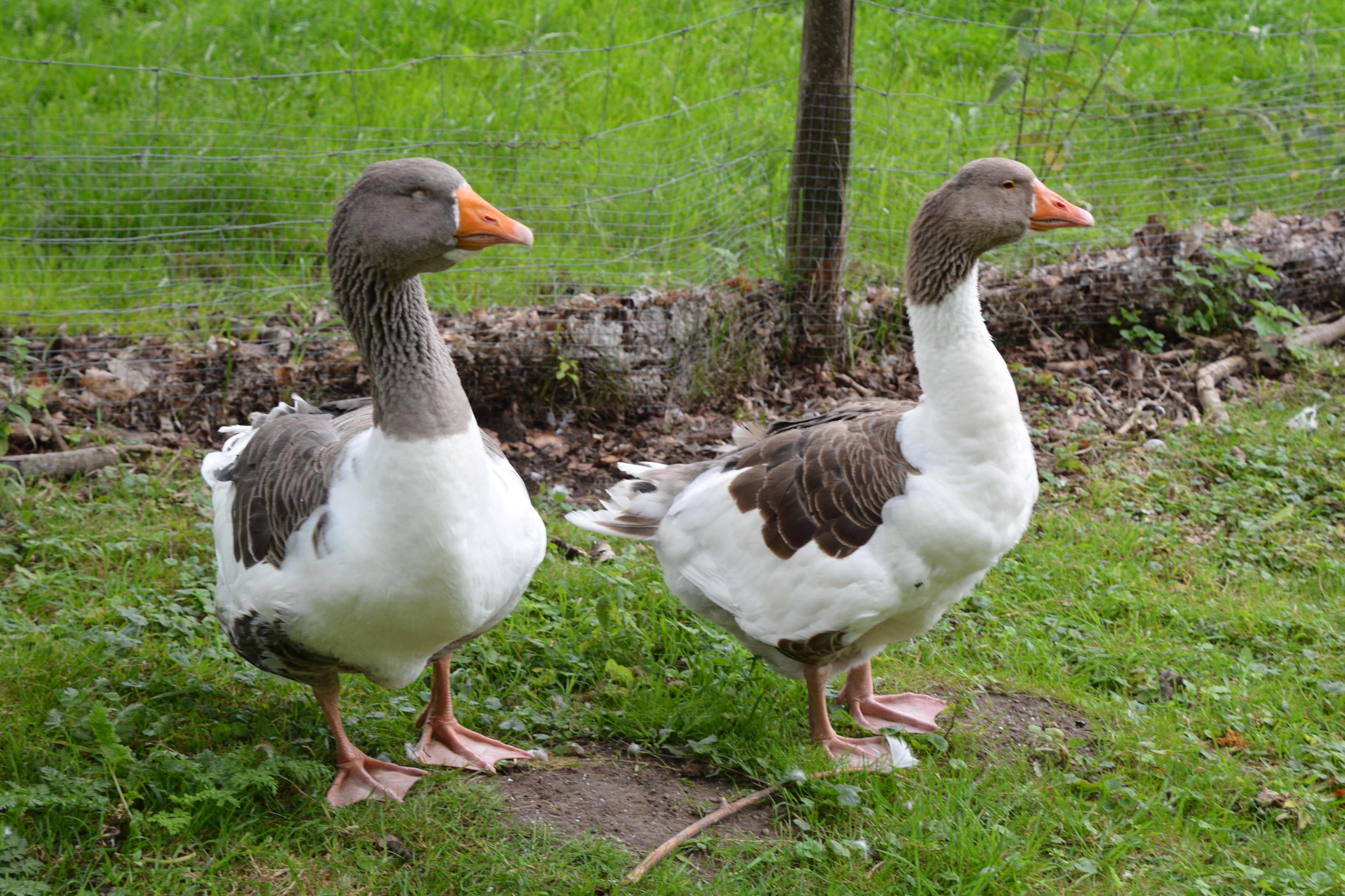 Skånegås